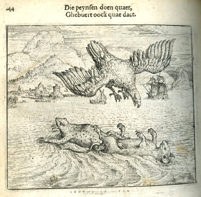 The fable of "The Toad and the Rat" from Warachtighe Fabulen der Dieren (1567), illustrated by Marcus Geeraerts the Elder